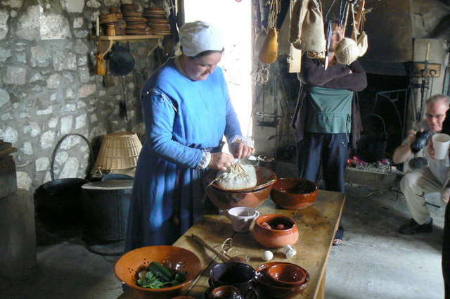 Buittle Tower Kitchen. Peas pudding hot, peas pudding cold. Clouty or Clooty Pudding, a pudding boiled or steamed in a cloth.